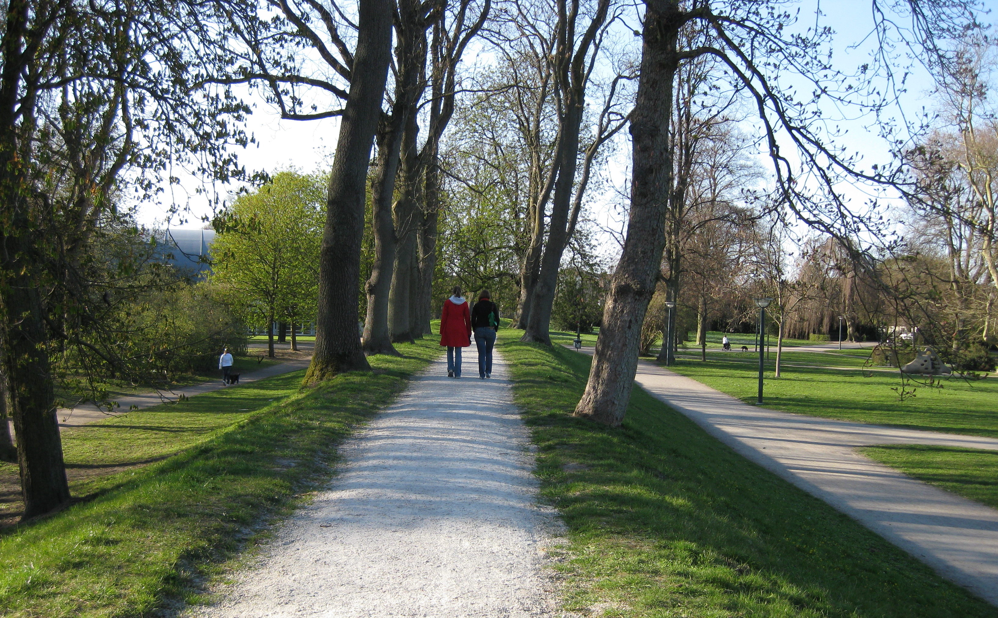 Högevall, remains of the medeaval town wall in Lund, Sweden